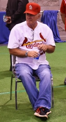 Retired Major League Baseball pitcher Charles ‘Budd’ Schultz (center) talks to a group of young children at a baseball clinic, July 20, Phoenix Convention Center. Schultz was the guest speaker at the Phoenix Recruiting Battalion’s Annual Training Conference dining out event, Dec. 8. (U.S. Army Photo by Alun Thomas, USAREC Public Affairs)